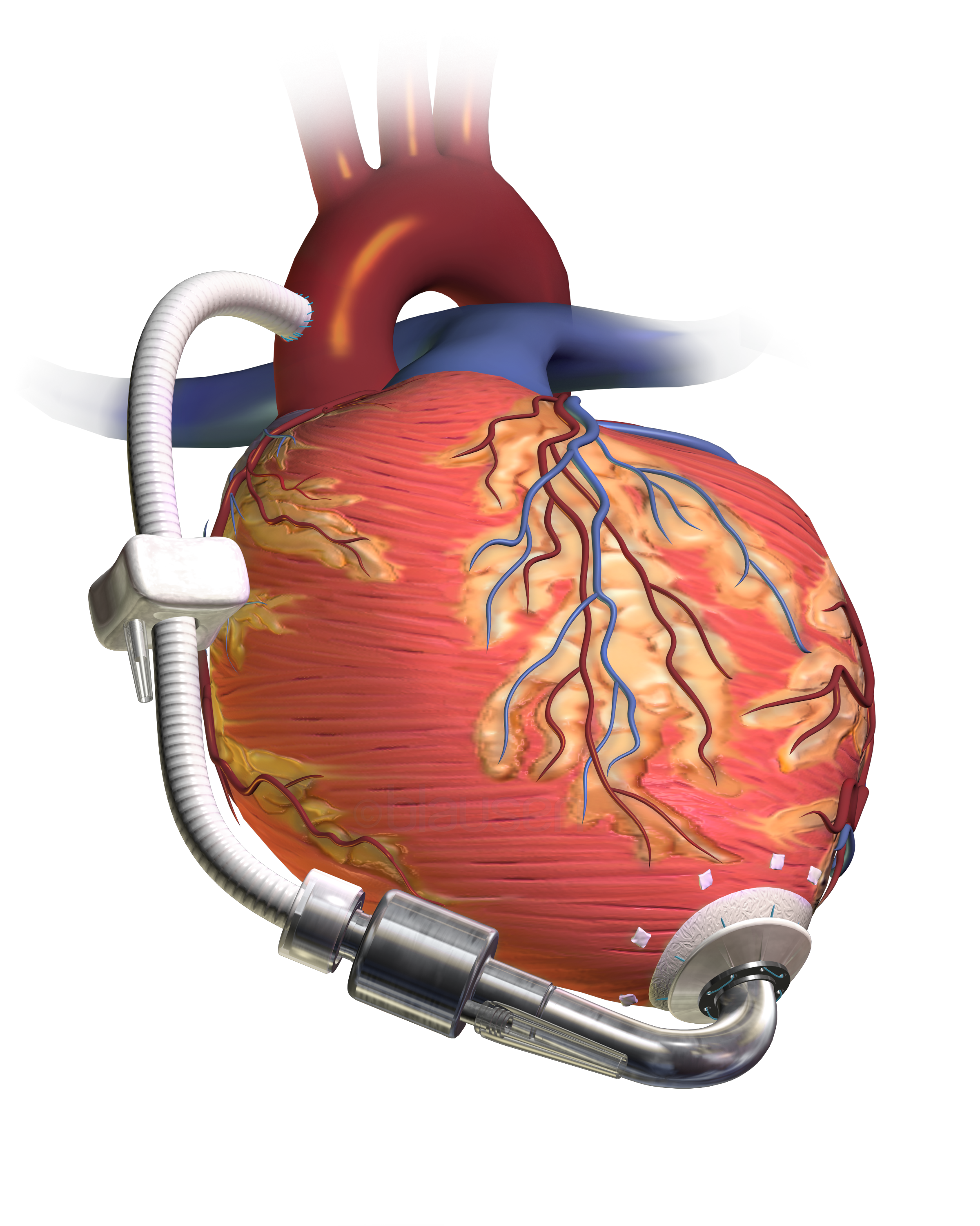 Left Ventricular Assist Device (LVAD). See a full animation of this medical topic.